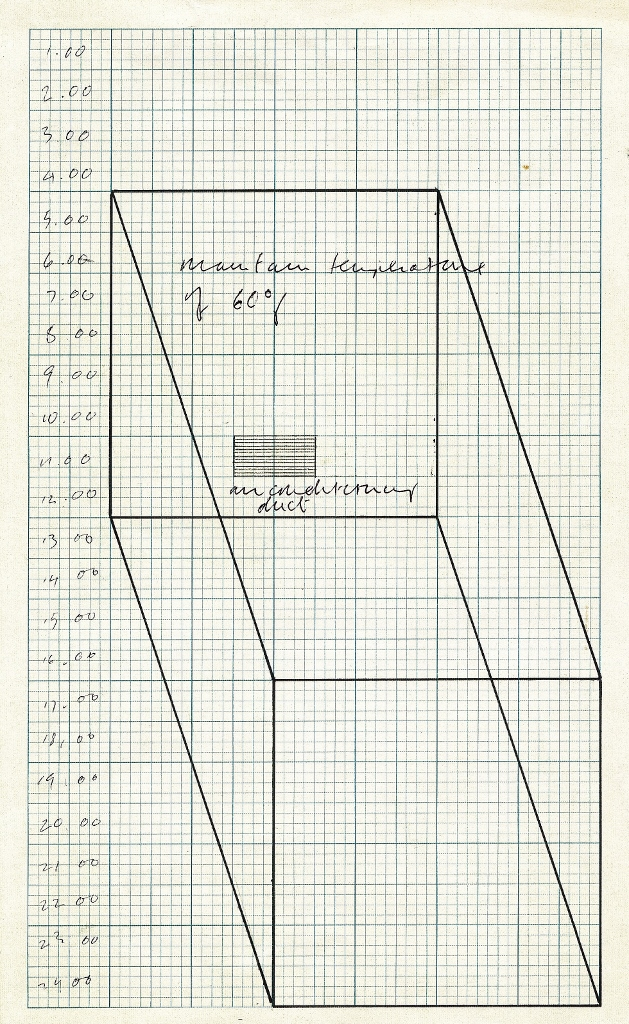 Air-Conditioning Show is a seminal art work of 1967 by the conceptual artists Art & Language.